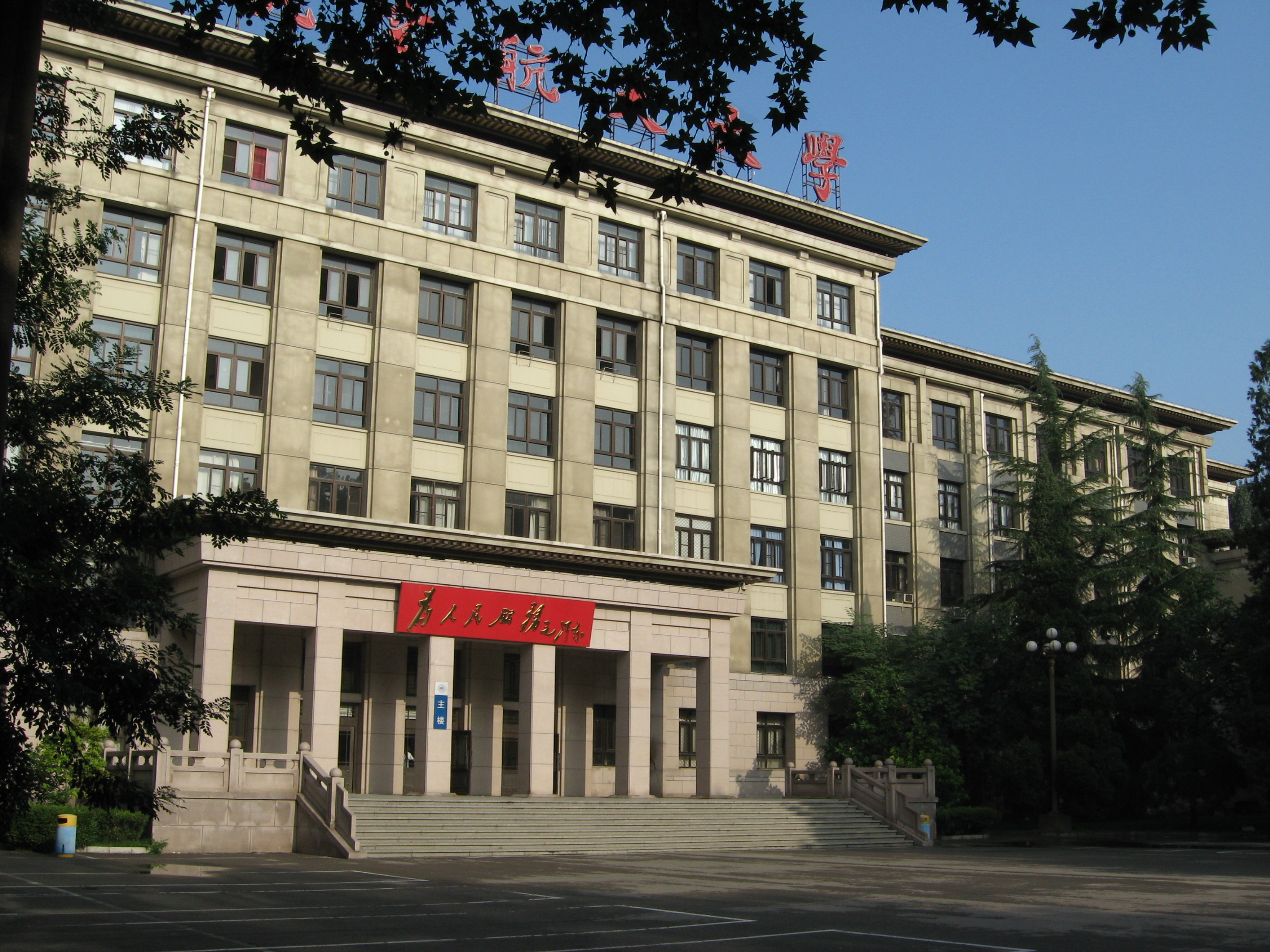 The old main building of BUAA.